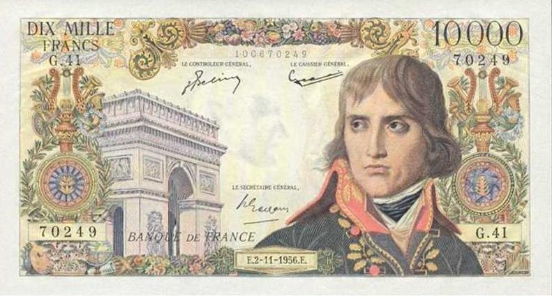 France 10000 francs Bonaparte 01